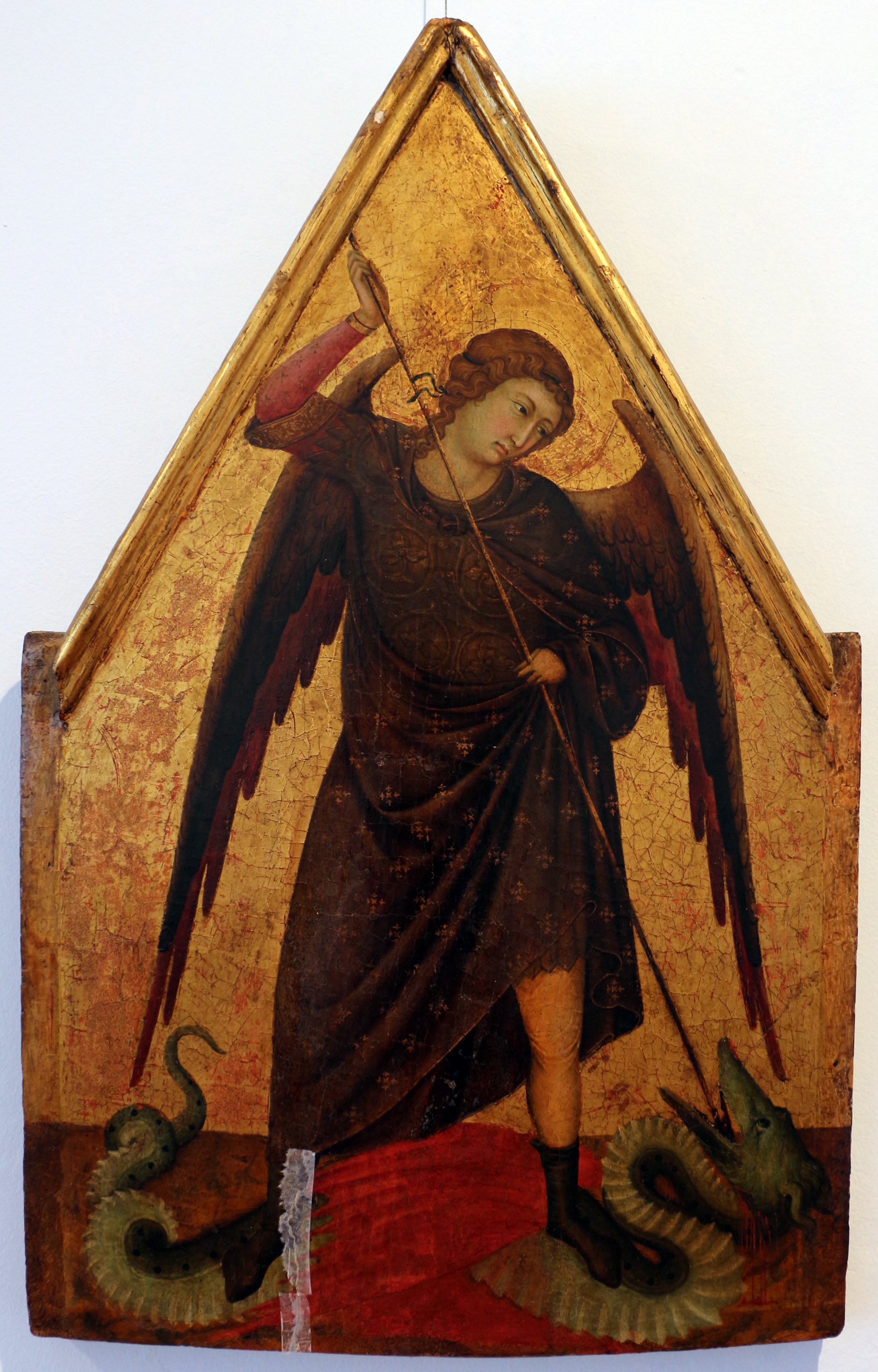 Paintings in the Museo archeologico e d'arte della Maremma